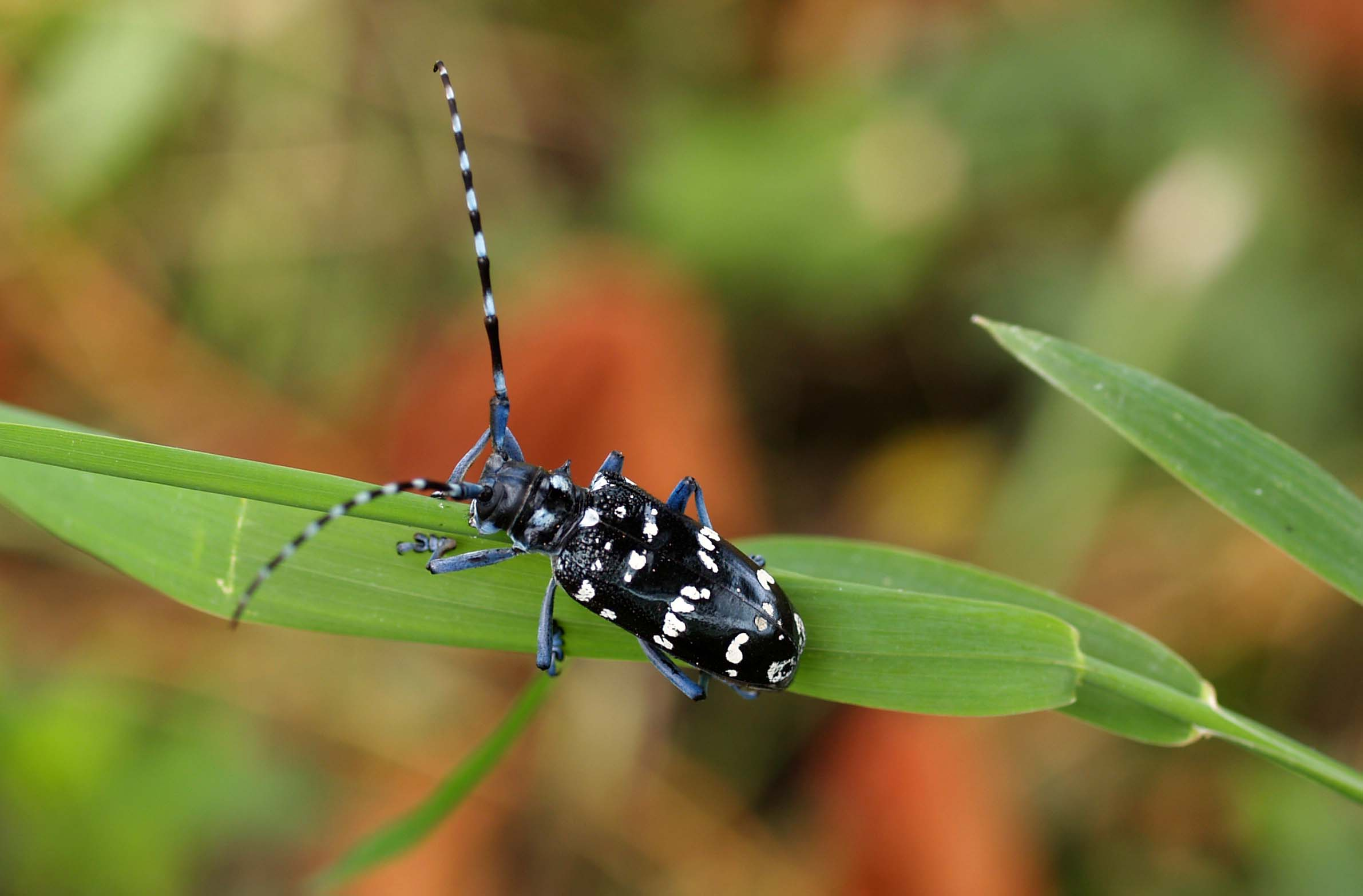 White-spotted longicorn beetle It can cause serious damages to healthy ornamental fruit trees. In Japan it is the most harmful cerambycid in citrus orchards. [1]